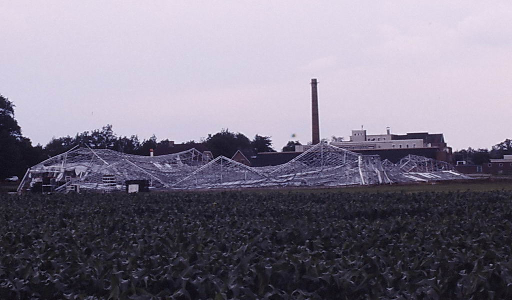 Glass house in the Netherlands destroyed by a whirlwind